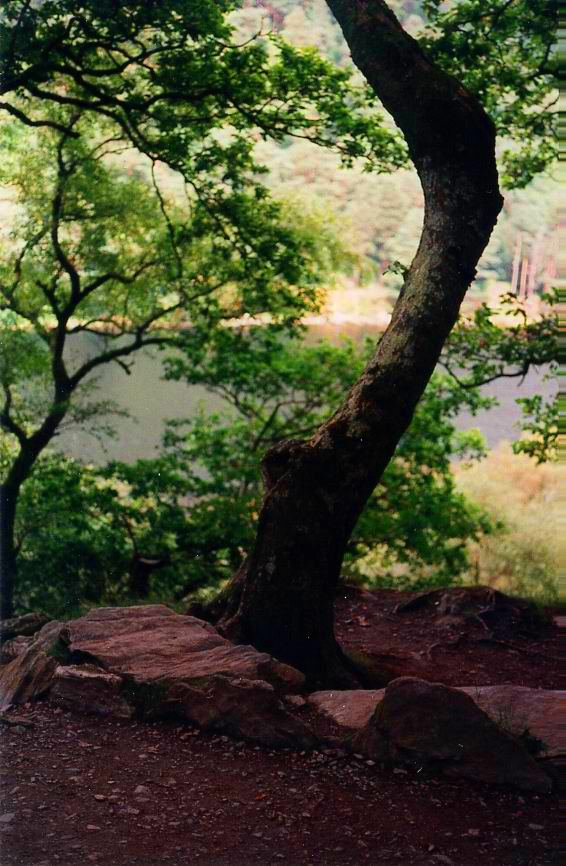 Glendalough, Upper Valley